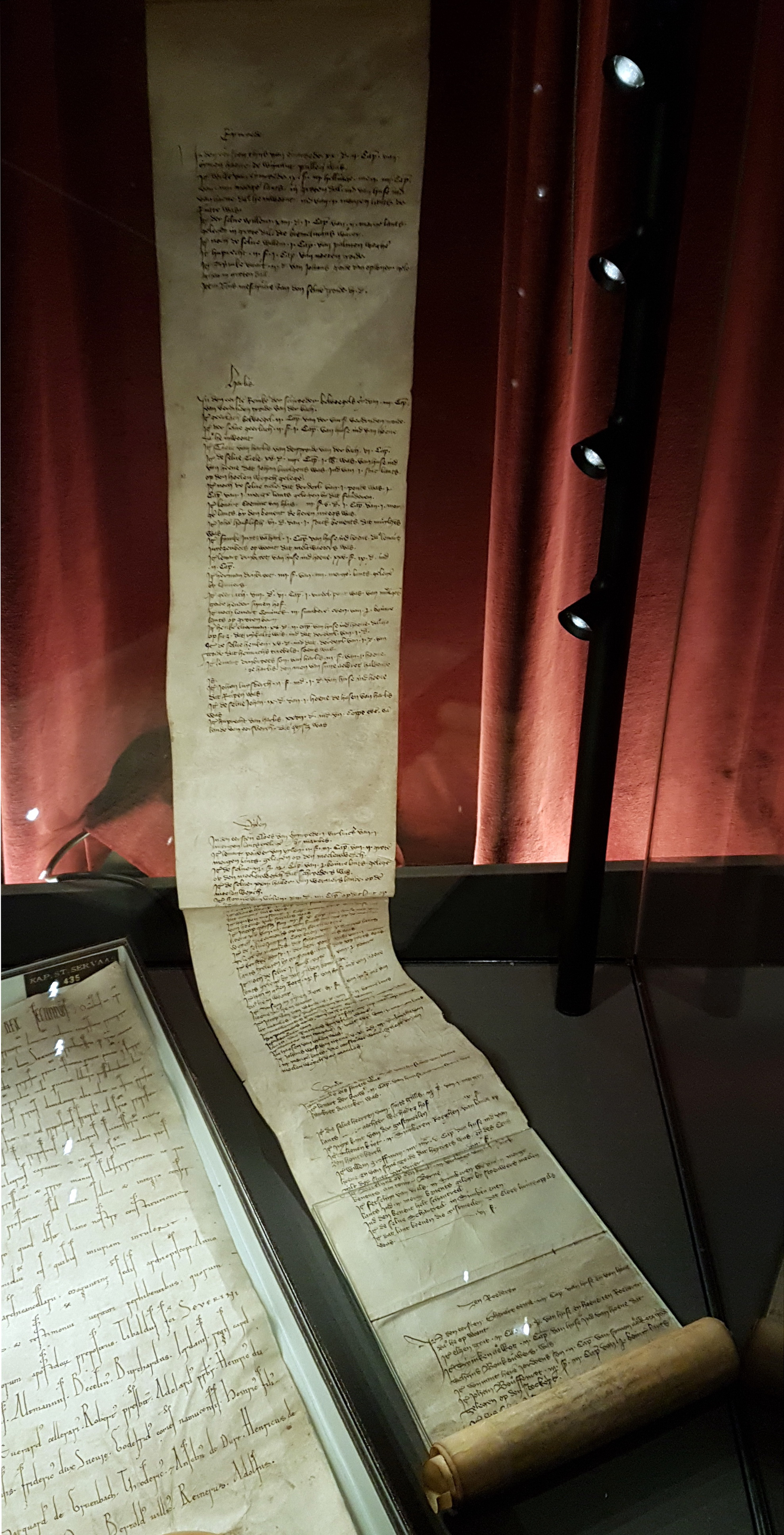 14th-century tribute or tax scroll of the Einrade farm in the village of Holset, South Limburg. The role was kept for centuries in the parish church in Holset. It is now on display in the so-called 'treasury' of the National Archives in Limburg (Regionaal Historisch Centrum Limburg, RHCL), Maastricht, Netherlands. It is the longest scroll in the archives.